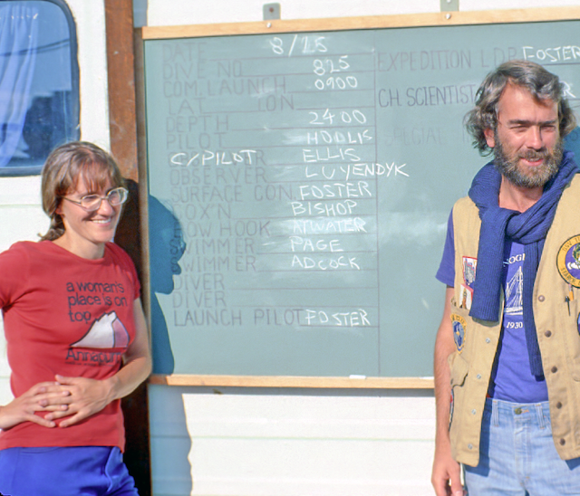 Tanya Atwater and Bruce Luyendyk in front of dive shack aboard the R/V Lulu in the Mid-Atlantic ocean. Atwater was chief scientist for a diving expedition to explore the rift valley of the MId-Atlantic Ridge in 1978.